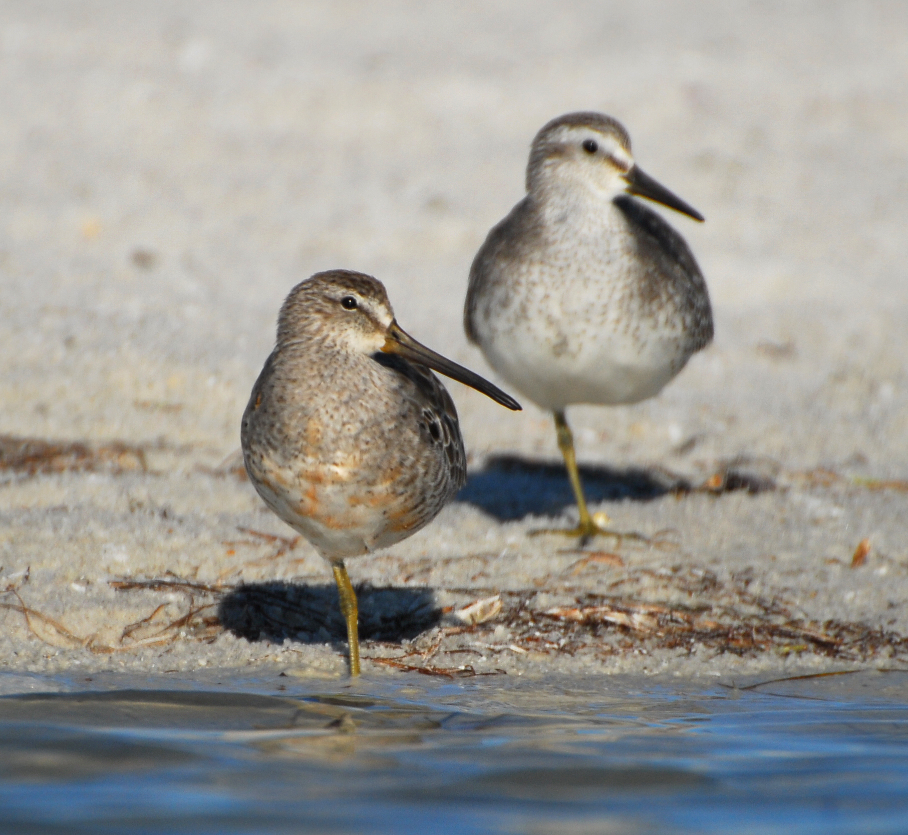 Short-billed dowitcher with Red Knot in the background. This Short-billed Dowitcher is in the process of changing plumages. The red feathers are an earlier generation of feathers that were grown in April or May. The gray feathers are a new generation of feathers and cover the bird beginning in August.